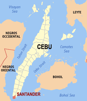 Map of Cebu showing the location of Santander